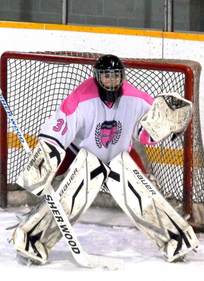 This photo was taken by Devan Mighton during the 2014-15 GMHL season.